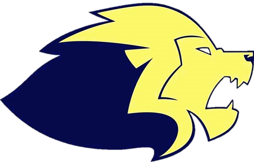 McMillen Lions